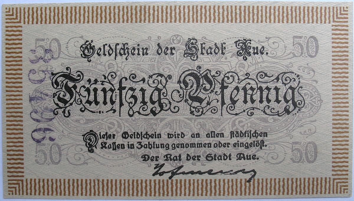 Emergency Currency issued by the Aue city council in 1918 (obverse).